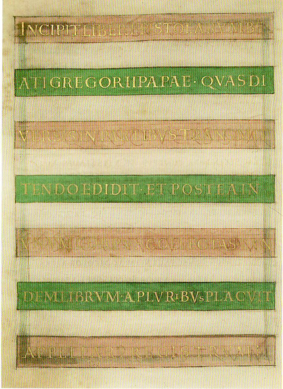 fol. 1v of the registrum Gregorii, Stadtbibliothek Trier, Hs. 171/1626a. Title